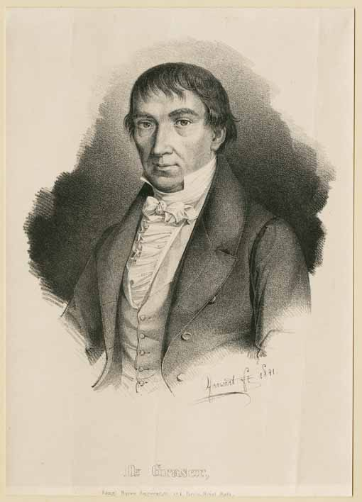 The german educationist Johann Baptist Graser (1766-1841)